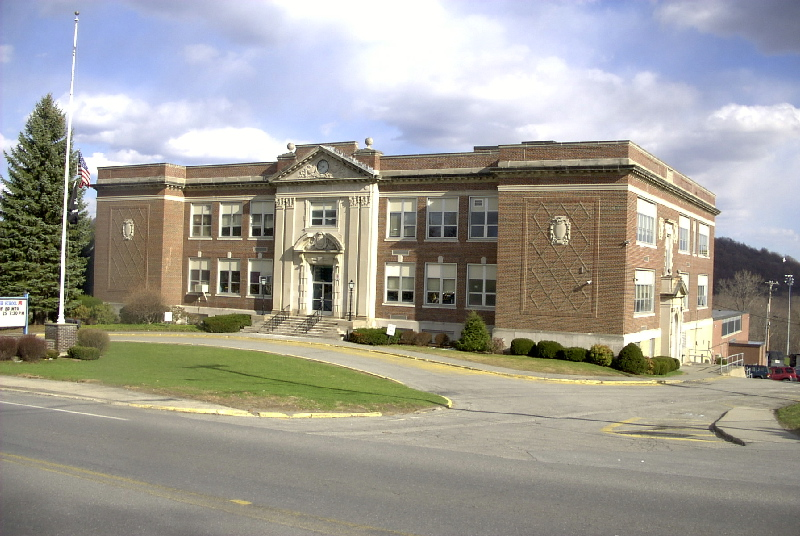 I took this photograph of Carmel High School in Carmel, New York. —GNU Free Documentation License